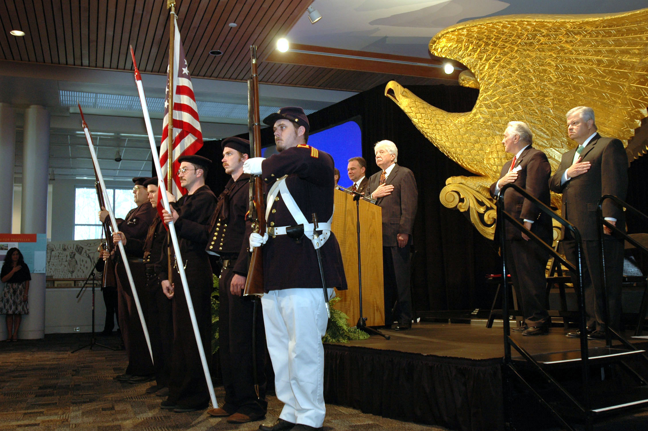 NEWPORT NEWS, Va. (March 9, 2007) - Members of Tidewater Maritime Living History Association present the colors during the opening ceremony for the USS Monitor Center at the Mariner's Museum in Newport News. The Monitor faced off against the Confederate Ironclad, CSS Virginia, during the Civil War Battle of Hampton Roads, March 9, 1862. This battle was the first naval battle between ironclad ships. U.S. Navy photo by Mass Communication Specialist Seaman John Suits (RELEASED)